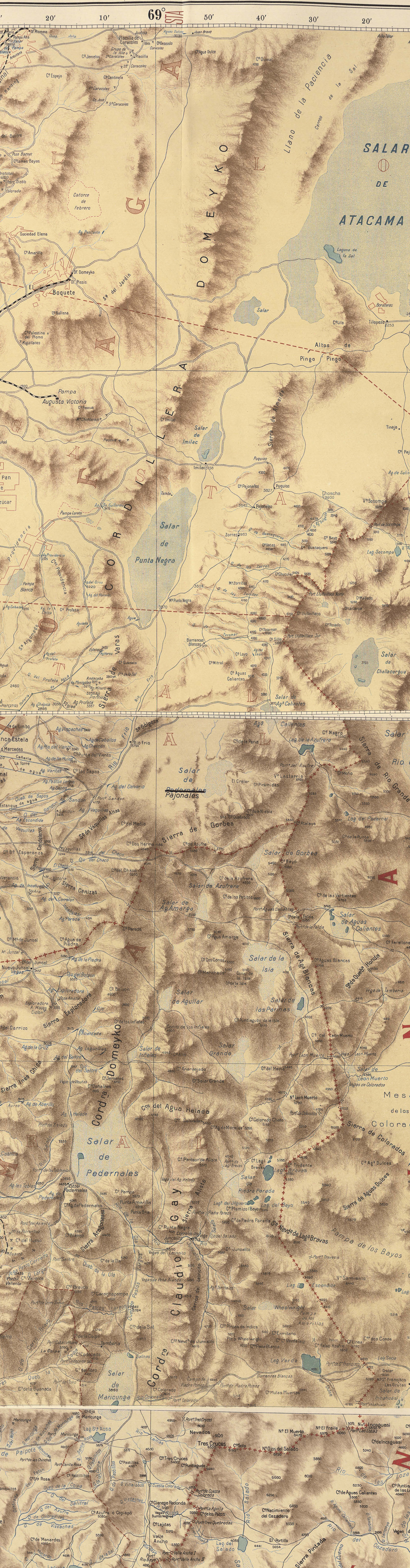 Cordillera de Domeyko según Luis Risopatrón, "Diccionario Jeográfico de Chile", pág. 301, desde 23° 07' S hasta 27° 18'S